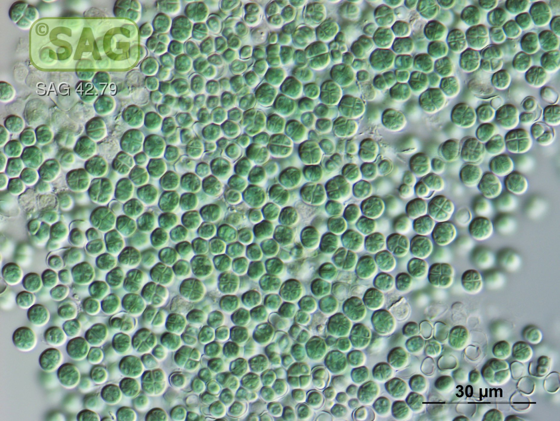 An international team of scientists has found that a strange type of bacteria can turn light into fuel in incredibly dim environments. Similar bacteria could someday help humans colonize Mars and expand our search for life on other planets, researchers said in a statement released with the new work. Organisms called cyanobacteria absorb sunlight to create energy, releasing oxygen in the process. But until now, researchers thought these bacteria could absorb only specific, higher-energy wavelengths of light. The new work reveals that at least one species of cyanobacteria, called Chroococcidiopsis thermalis — which lives in some of the world's most extreme environments — can absorb redder (less energetic) wavelengths of light, thus allowing it to thrive in dark conditions, such as deep underwater in hot springs. [Extreme Life on Earth: 8 Bizarre Creatures] "This work redefines the minimum energy needed in light to drive photosynthesis," Jennifer Morton, a researcher at Australian National University (ANU) and a co-author of the new work, said in the statement. "This type of photosynthesis may well be happening in your garden, under a rock." (In fact, a related species has even been found living inside rocks in the desert.) When grown in far-red light, this cyanobacteria, called Chroococcidiopsis thermalis, can still photosynthesize where others falter. Credit: T. Darienko/CC BY-SA 4.0